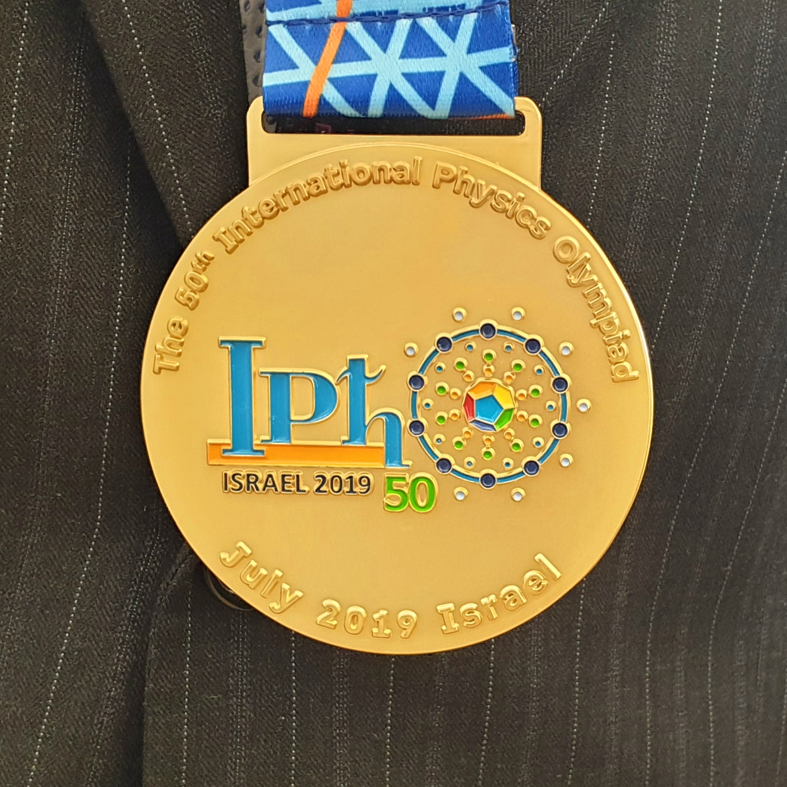 Gold medal of the 2019 International Physics Olympiad in Tel Aviv, Israel.